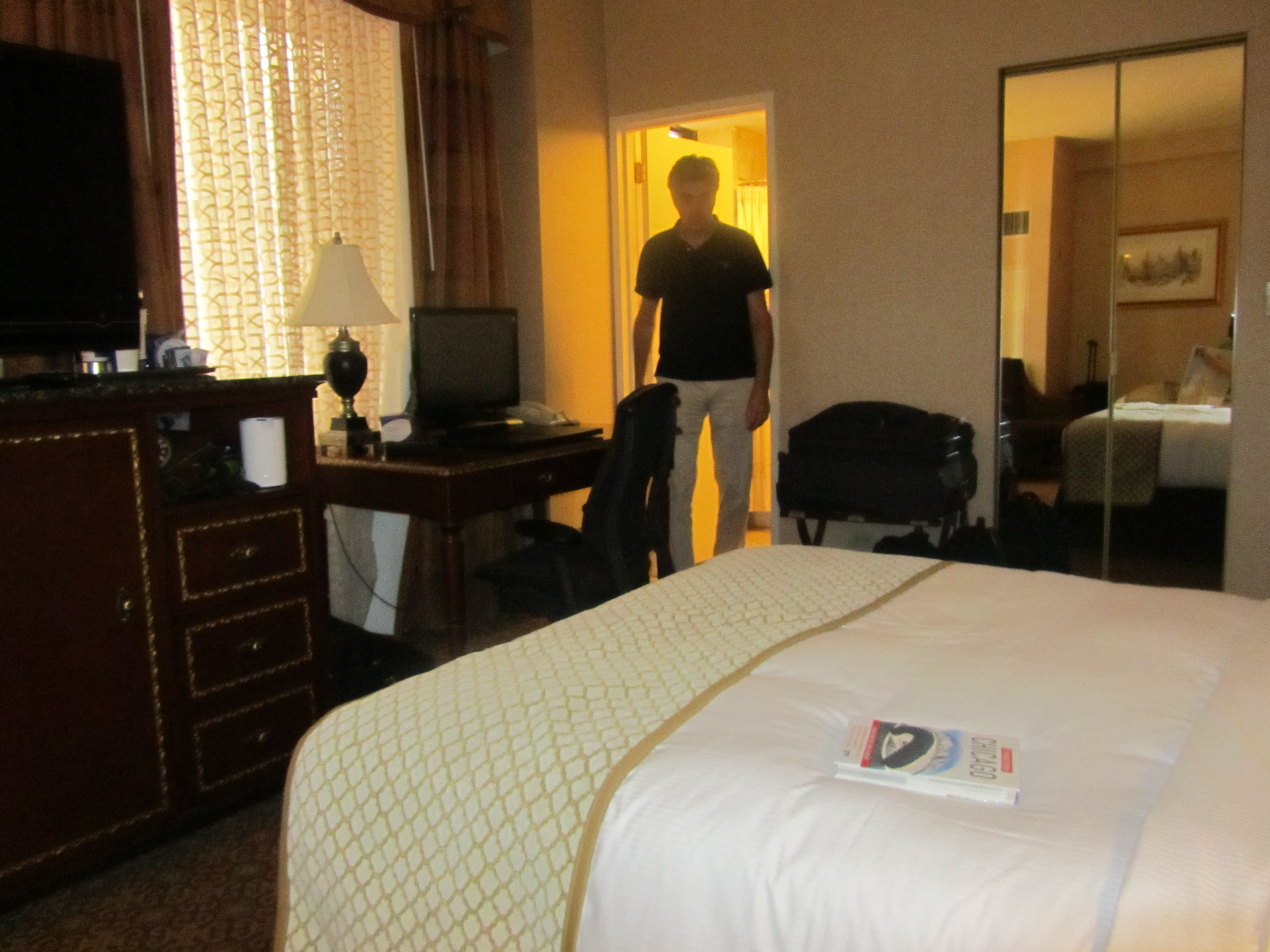 Double bathroom suite in Hilton Chicago before renovation in 2011